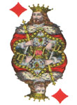 King od Diamonds, Tarocchi card